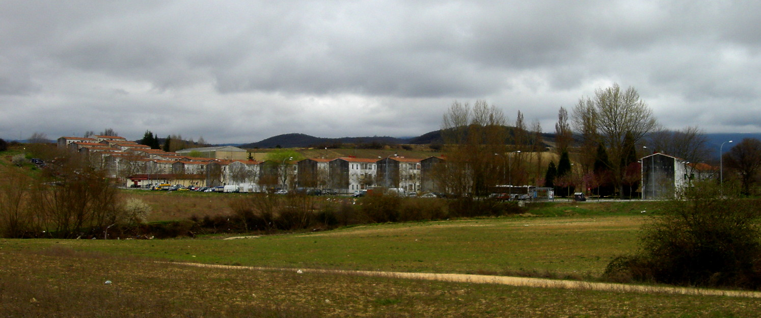 Errekaleor neighbourhood (Vitoria-Gasteiz, Araba, Basque Country, Spain)